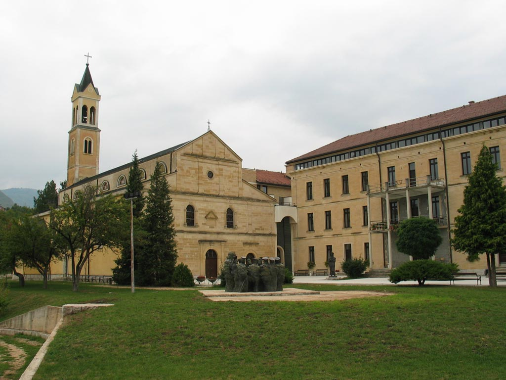 Rama/Šćit-monastery and Virgin Mary Assumption church